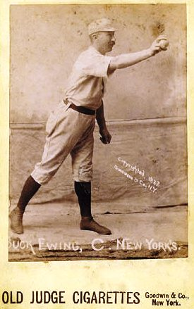 Buck Ewing with the New York Giants baseball team. Notice the lack of glove.